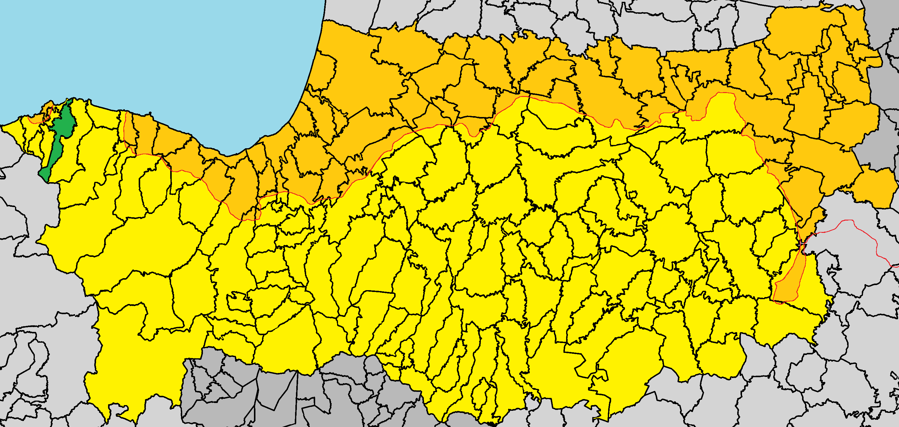 Agios Theodoros Tilliria in Nicosia District.